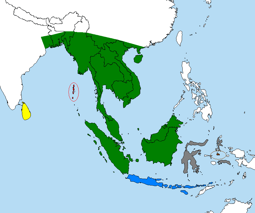 The range of Varanus salvator and its recognized subspecies, according to: A. Koch, M. Auliya, A. Schmitz, U. Kuch & W. Böhme (2007): Morphological Studies on the Systematics of South East Asian Water Monitors (Varanus salvator Complex): Nominotypic Populations and Taxonomic Overview. Mertensiella 16 (Advances in Monitor Research III), S. 109-180 A. Koch & W. Böhme (2010): Heading East: A new Subspecies of Varanus salvator from Obi Island, Maluku Province, Indonesia, with a Discussion about the Easternmost Natural Occurence of Southeast Asian Water Monitor Lizards. Russian Journal of Herpetology 17(4), S. 299–309 Yellow: V. s. salvator, Green: V. s. macromaculatus, Blue: V. s. bivittatus, Red: V. s. andamanensis, Brown: V. s. ziegleri, Grey: yet undescribed Sulawesian subspecies